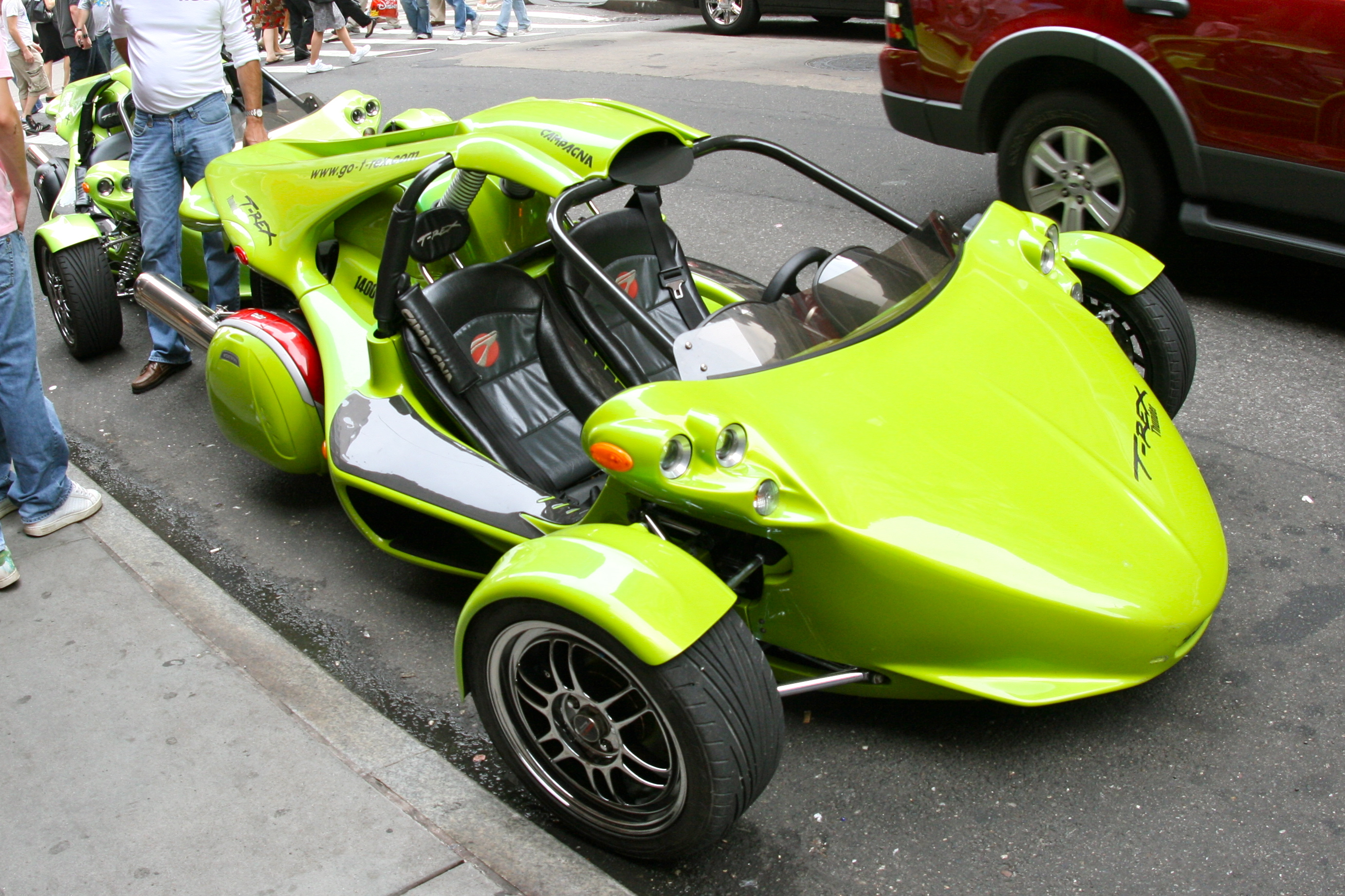 3 Wheel motor vehicle I saw in NYC. I saw 3 total in 1 week. All on Manhattan, pob. the same vehicle.